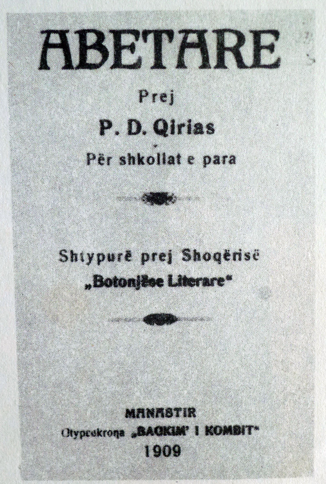 Primer book from P.D.Qirias